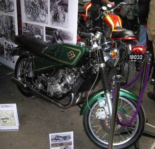 At the Stafford Classic Motorcycle show 2012. A mid-1970's two stroke twin based upon the 1940's Scott design.